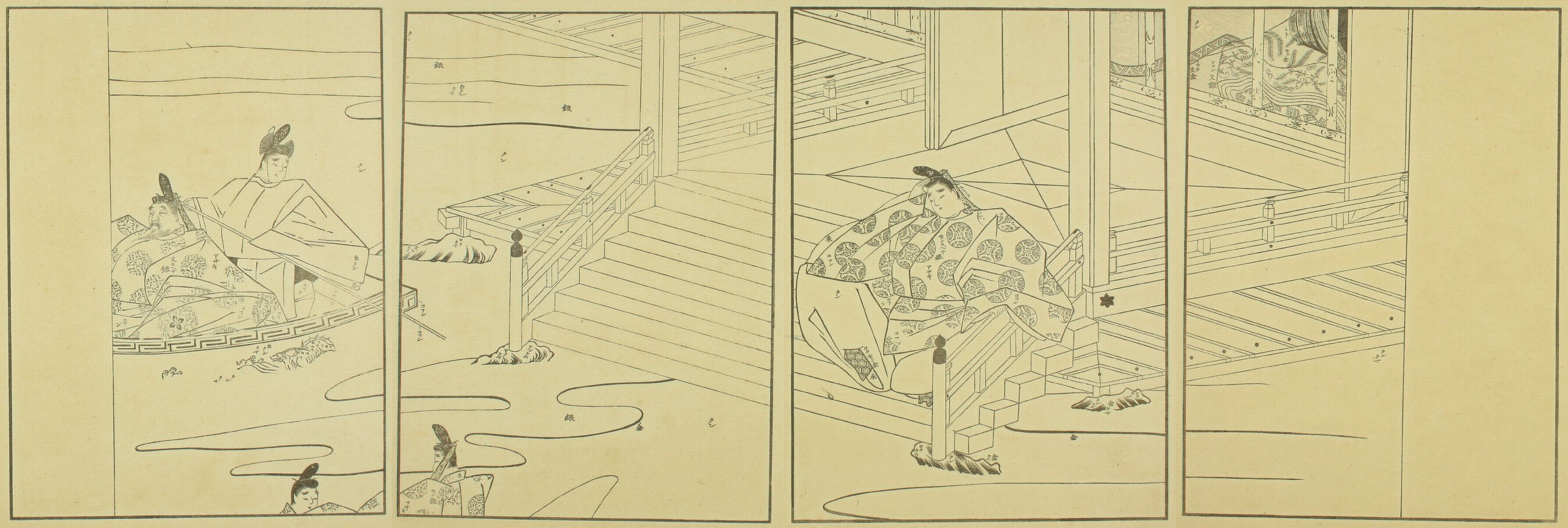 Ukiyo-e reproduction of the Murasaki Shikibu Diary Emaki, Hinohara scroll, 2nd painting.